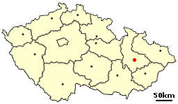 Location of the town of Olomouc in Czechia. Released into PD by myself, David Paloch (in all Wikipedias as User:Caroig).